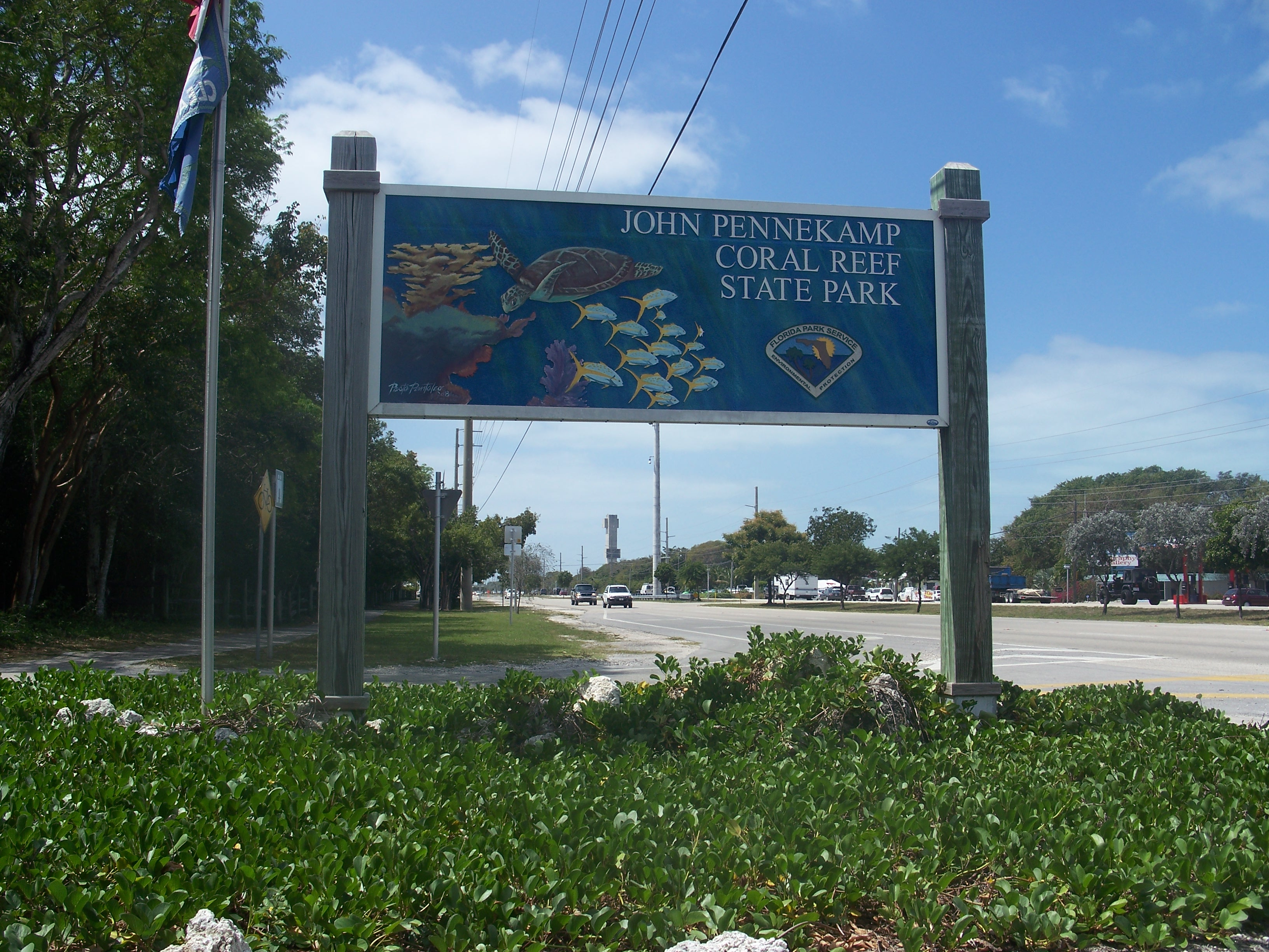 John Pennekamp Coral Reef State Park: Park sign